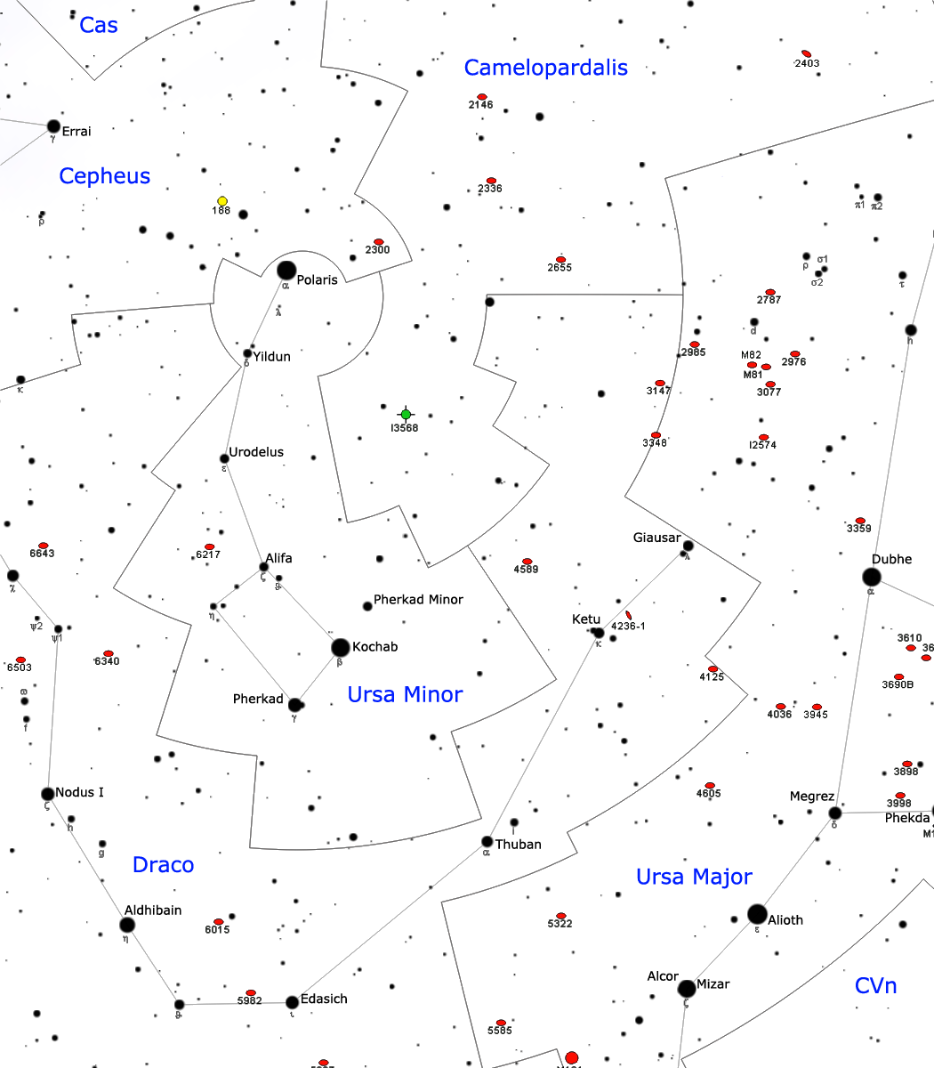 Map of Ursa Minor